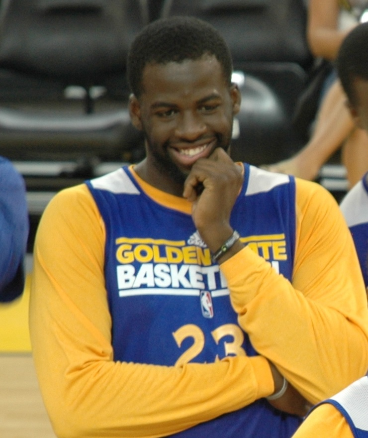 Draymond Green, part of the 2015 Golden State Warriors Championship Team in Oakland, Ca.